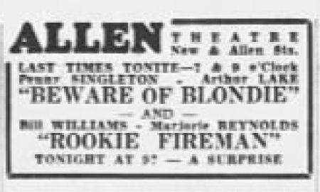 Allen Theater advertisement for the American films Beware of Blondie (1950) and Rookie Fireman (1950) - 26 Apr. 1951 MC - Allentown PA